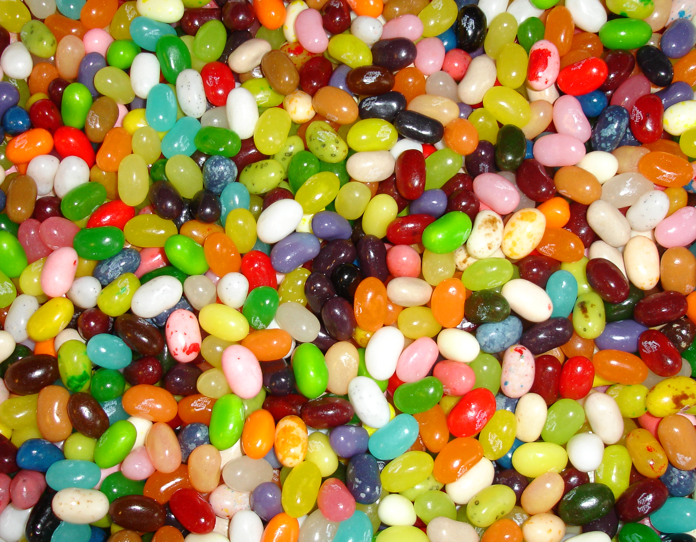 These are my Jelly Belly jelly beans, and you can't have any. They're all MINE! Photographed and eaten by Brandon Dilbeck on August 30, 2006. See also Image:JellyBellyPile.JPG Image:EndlessSeaOfJellyBeans.jpg Image:RedJellyBean.jpg